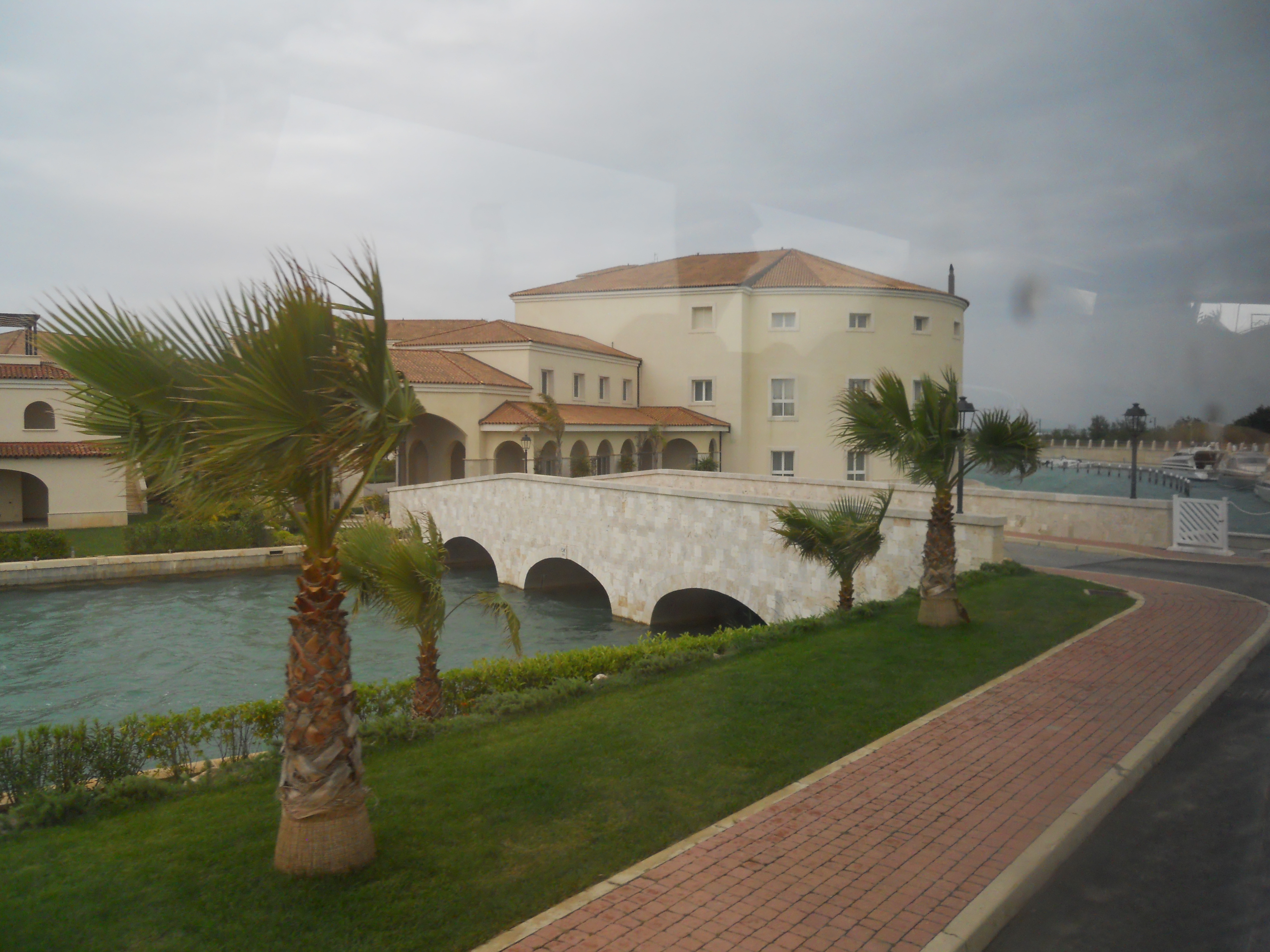 Turistic port of Policoro, Italy